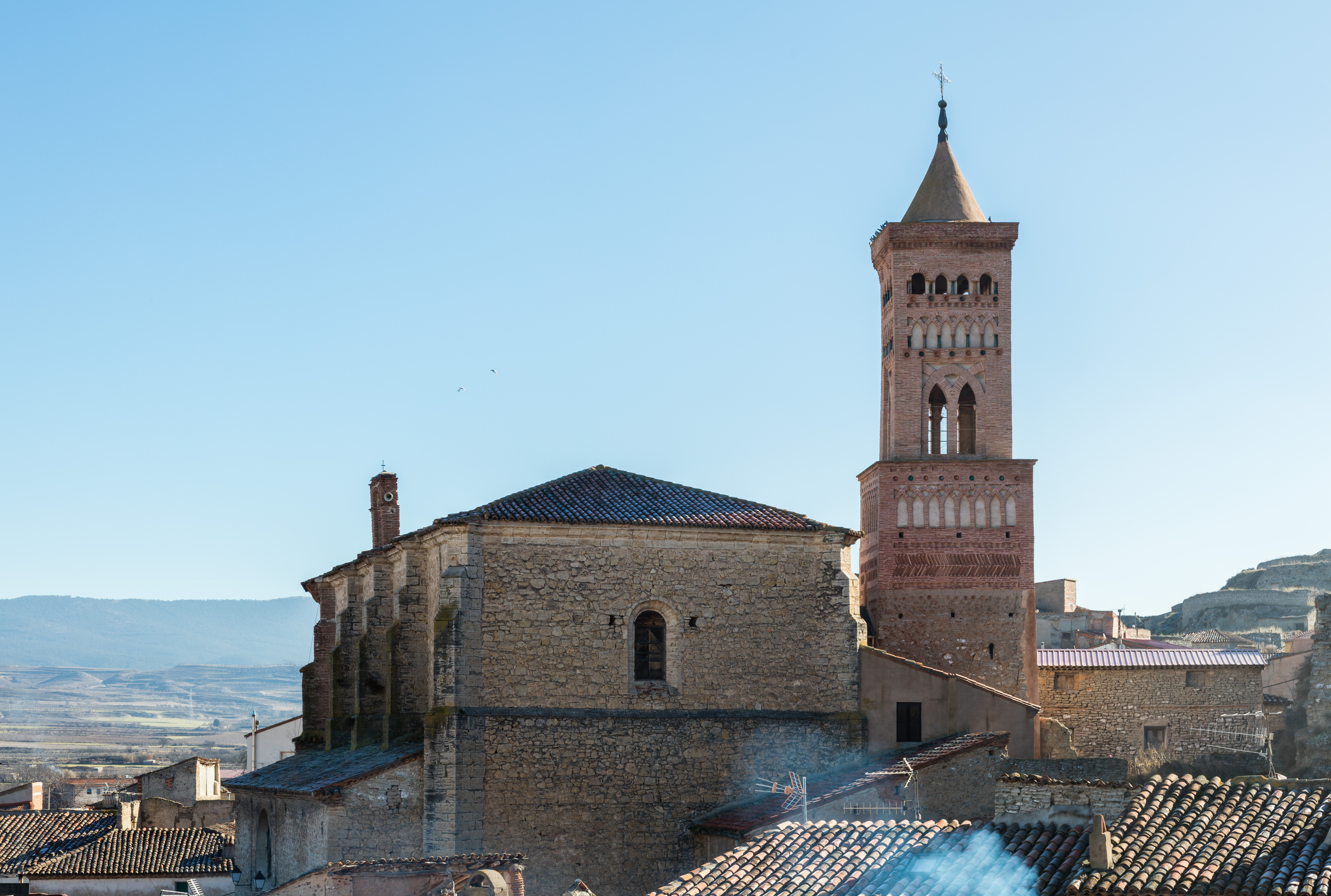 Church of San Miguel, Belmonte de Gracián, Zaragoza, Spain